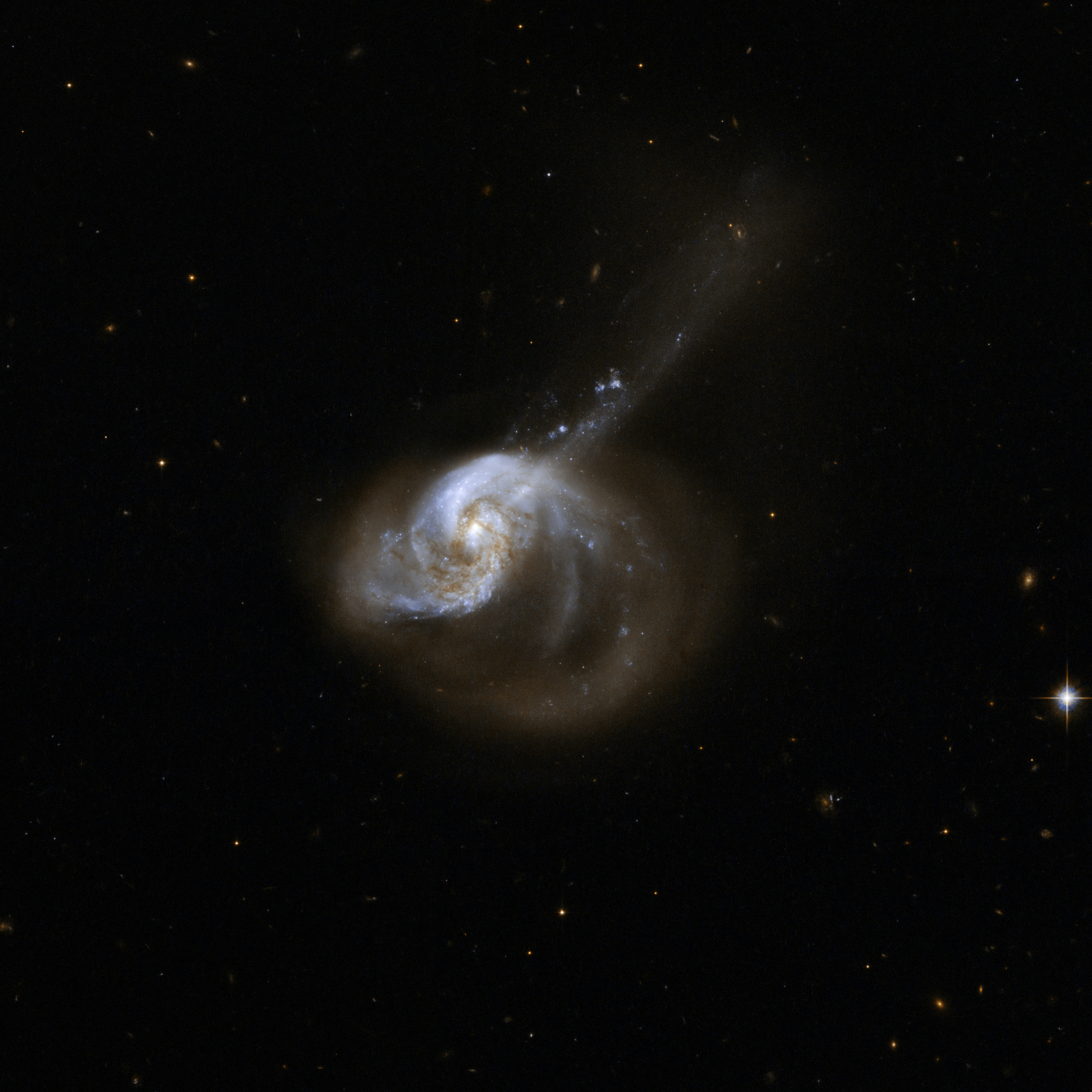 The galaxy system NGC 1614 has a bright optical center and two clear inner spiral arms that are fairly symmetrical. It also has a spectacular outer structure that consists principally of a large one-sided curved extension of one of these arms to the lower right, and a long, almost straight tail that emerges from the nucleus and crosses the extended arm to the upper right. The galaxy appears to be the result of a tidal interaction and the resulting merger of two predecessor systems. The system has a nuclear region of quasar-like luminosity, but shows no direct evidence for an active nucleus. It is heavily and unevenly reddened across its nucleus, while infrared imaging also shows a ridge of dust. The linear tail to the upper right and extended arms to the lower right are likely the remains of an interacting companion and the tidal plume(s) caused by the collision. NGC 1614 is located about 200 million light-years away from Earth in the constellation of Eridanus, the River. This image is part of a large collection of 59 images of merging galaxies taken by the Hubble Space Telescope and released on the occasion of its 18th anniversary on 24th April 2008. About the objectObject nameNGC 1614, Arp 186, Mrk 0617, II Zw 015Object descriptionInteracting GalaxiesPosition (J2000)04 33 59.99 +08 34 42.8ConstellationEridanusDistance200 million light-years (50 million parsecs)About the dataData descriptionThe Hubble image was created using HST data from proposal 10592: A. Evans (University of Virginia, Charlottesville/NRAO/Stony Brook University)InstrumentACS/WFCExposure date(s)August 13, 2002Exposure time33 minutesFiltersF435W (B) and F814W (I)